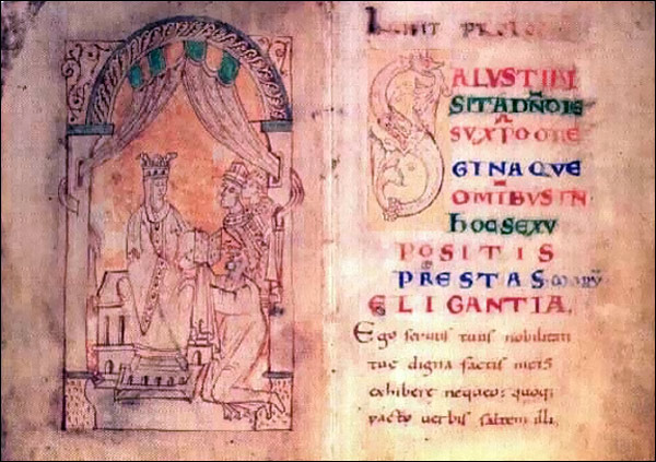 The Encomium Emmae Reginae (1041-2), London, British Library, MS. Add. 33241 -- Queen Emma of Normandy receiving the Encomium Emmae from its author, with her sons Harthacanute and Edward the Confessor in the background.